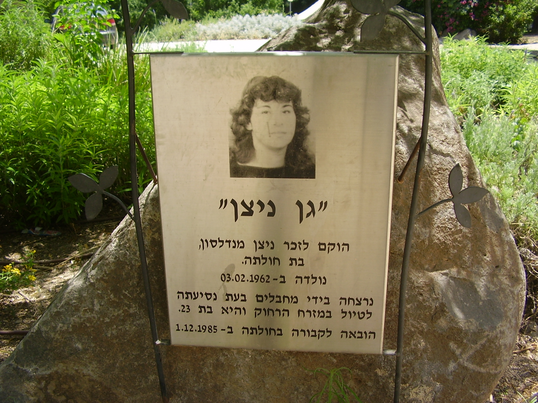 Nizan Mendelsshon memorial garden in Kibbutz Hulata, Israel